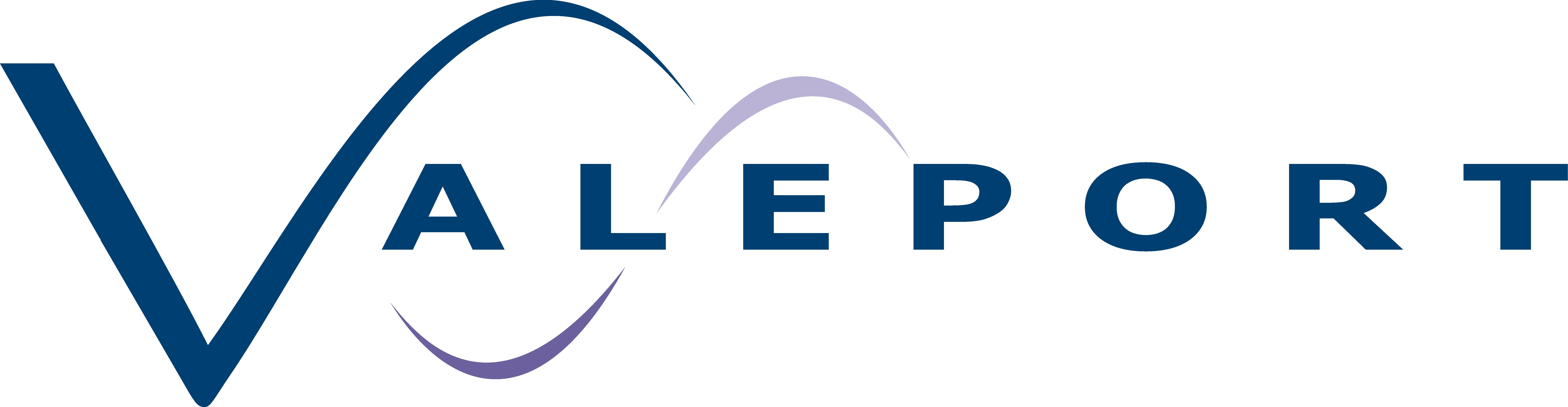 Valeport Logo